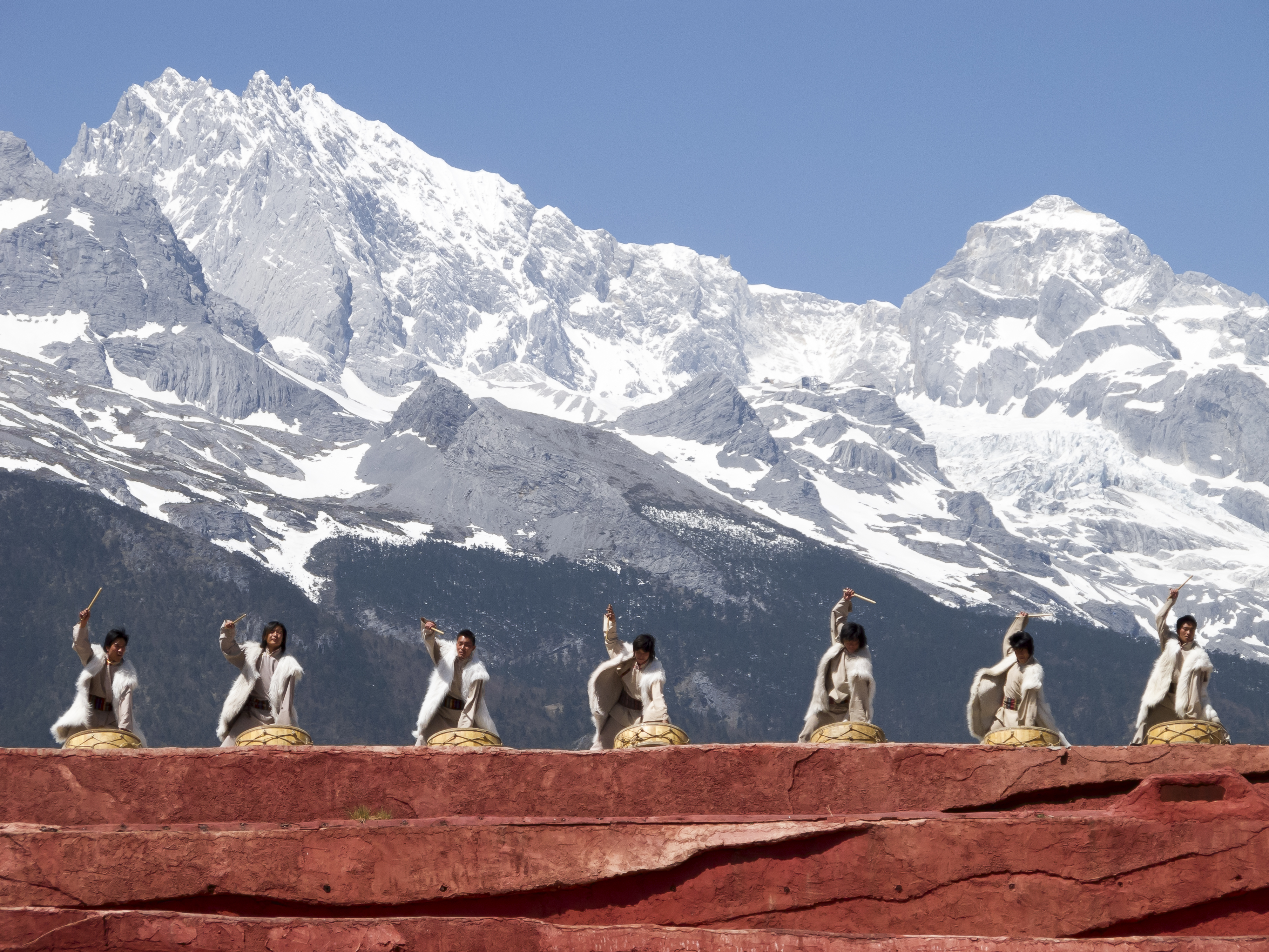 Lijiang, Yunnan, China: Naxi men in traditional fur clothing; scene from a public perfomance in Jade Dragon Snow Mountain Open Air Theatre.